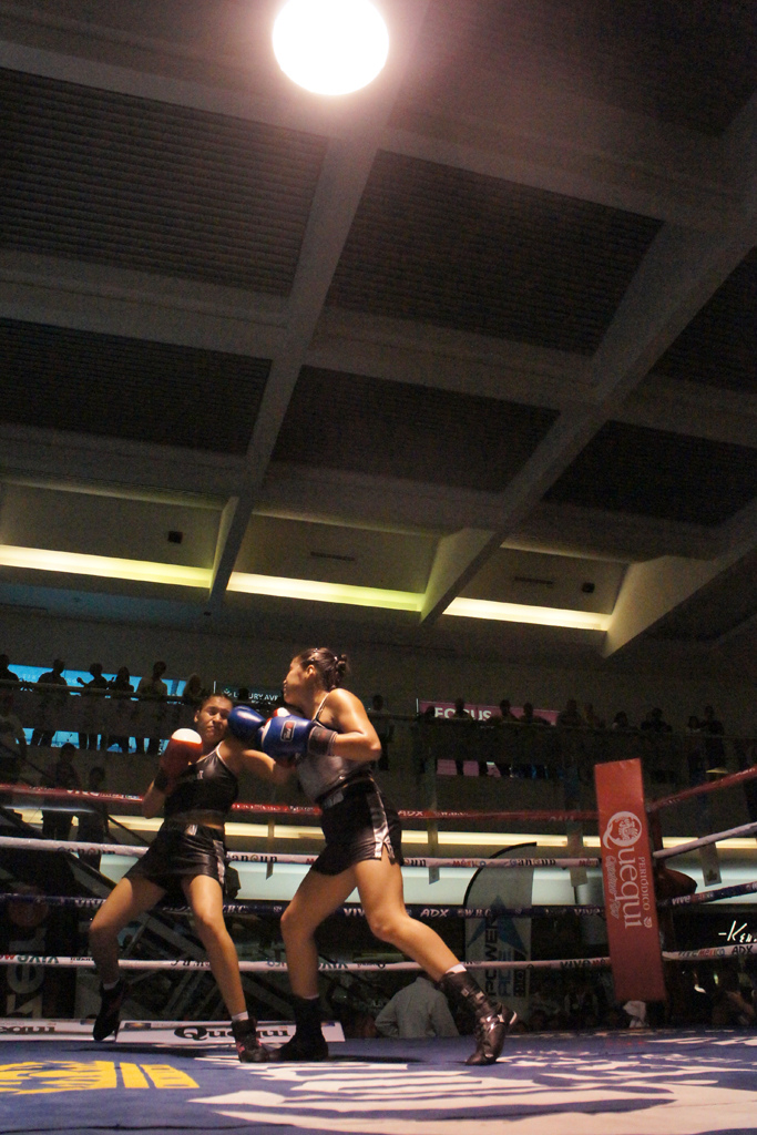 Female twin boxers